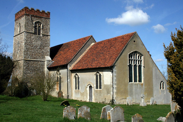 St Marys Church Belstead